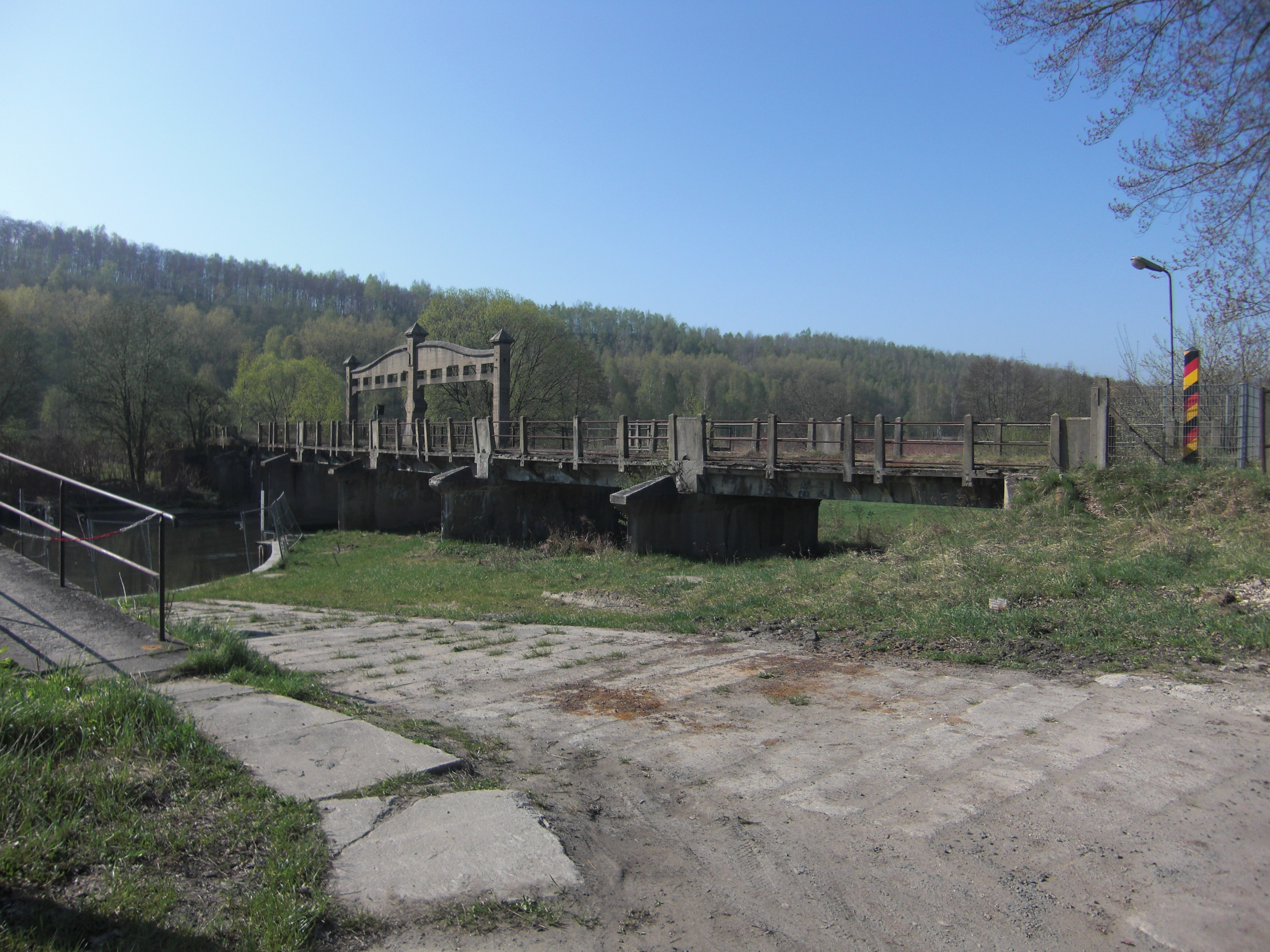 Border bridge across river Neiße / Nysa between Germany and Poland in the town of Hirschfelde (city of Zittau) at the end of "Straße zum Kraftwerk" street. Demolished in 2013, no replacement in this town.